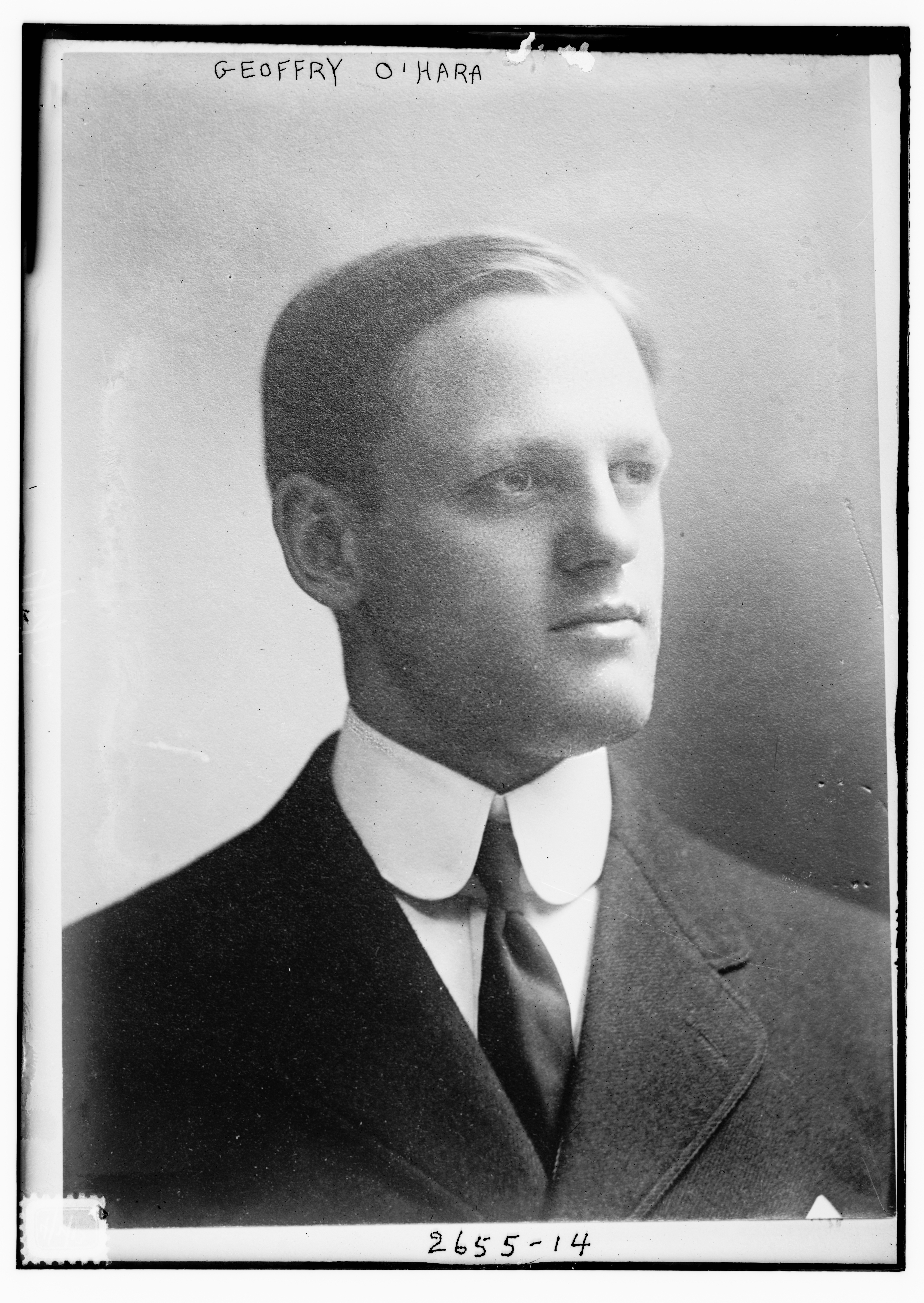 Bain News Service,, publisher. Geoffrey O'Hara [between ca. 1910 and ca. 1915] 1 negative : glass ; 5 x 7 in. or smaller. Notes: Title from data provided by the Bain News Service on the negative. Photo shows Geoffrey O'Hara (1882-1967) a Canadian American composer and singer. (Source: Flickr Commons project, 2009) Forms part of: George Grantham Bain Collection (Library of Congress). Format: Glass negatives. Repository: Library of Congress, Prints and Photographs Division, Washington, D.C. 20540 USA, General information about the Bain Collection is available at Persistent URL: Call Number: LC-B2- 2655-14